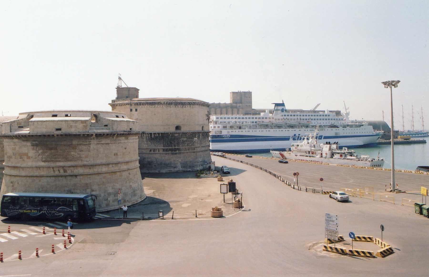 Fort and harbour.Civitaveccia.Italy